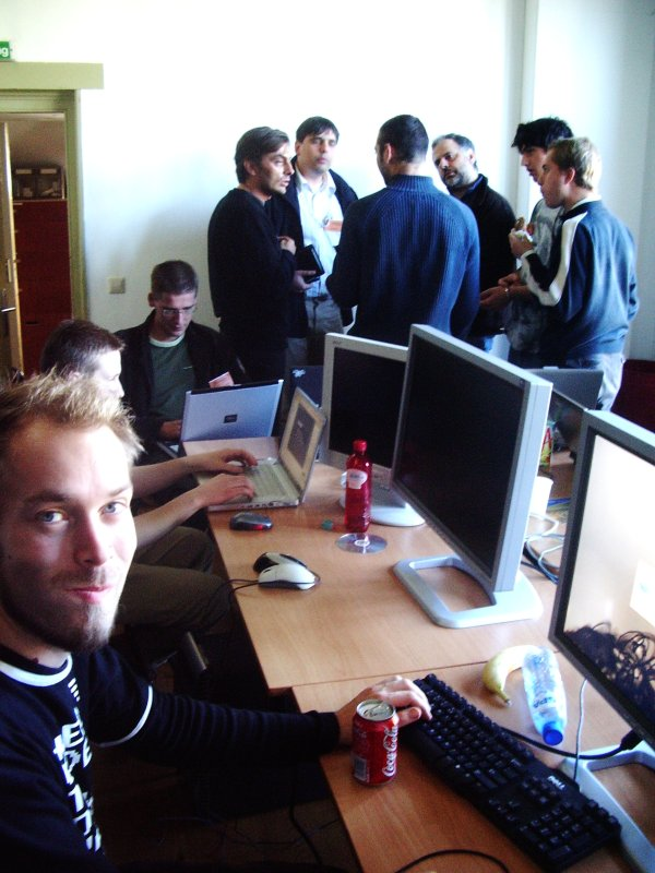 Photo of Blender Conference of movie Elephants Dream, October 14-16, 2005